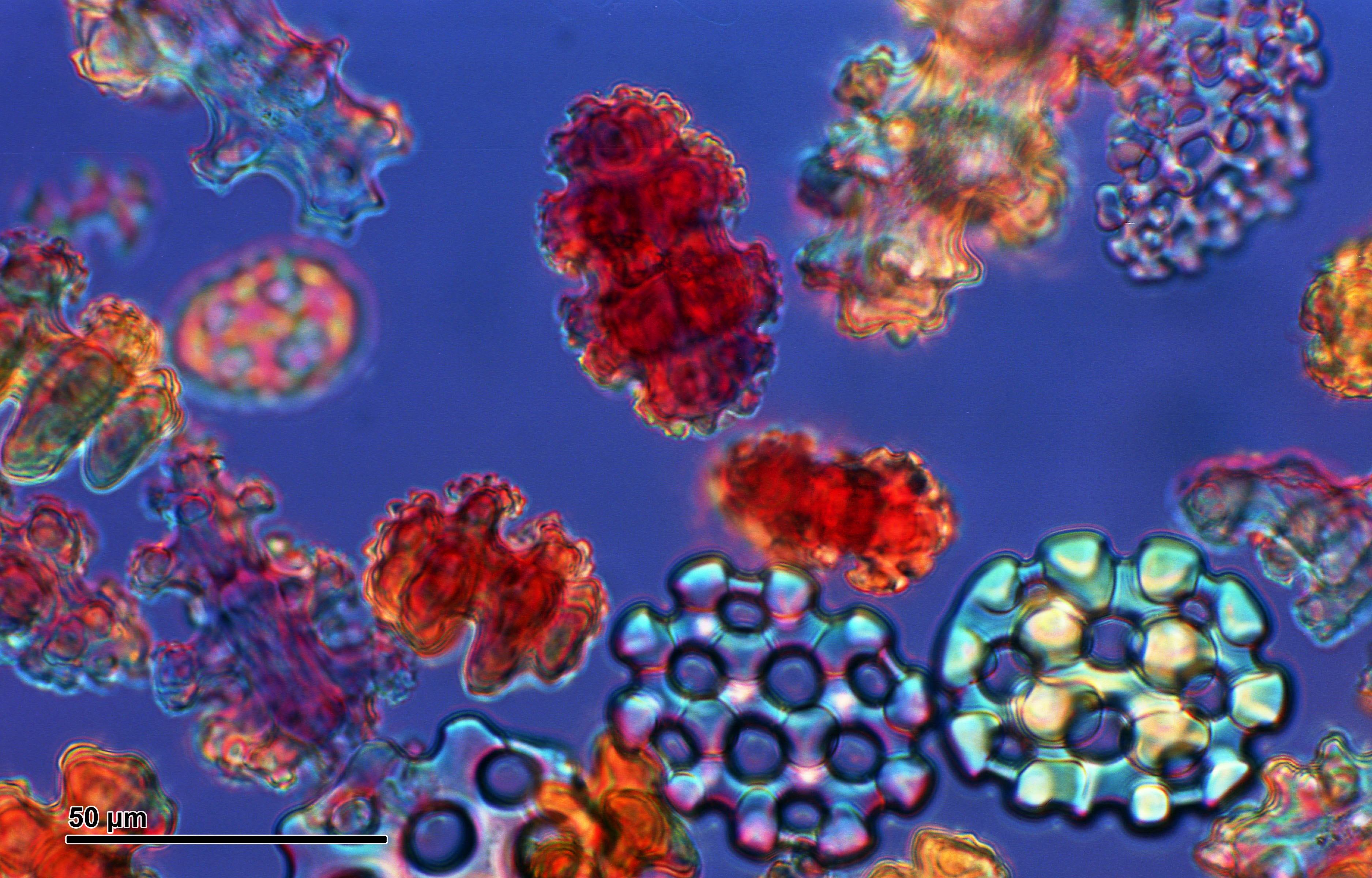 Ossicles and sclerites - various: From bodies of Porifera, sea corals and holuthureans. Optical microscopy technique: Negative phase contrast. Magnification: 1200x (for picture width 26 cm ~ A4 format).